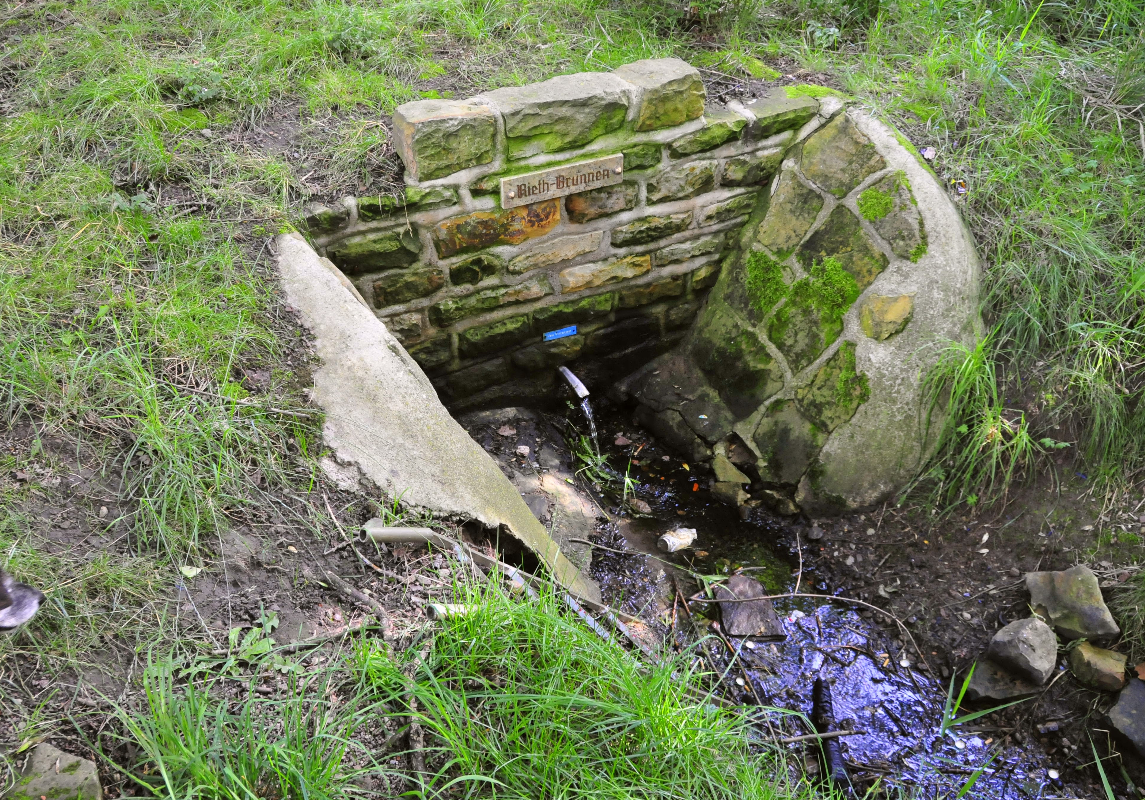 Friemar, Rieth-Spring